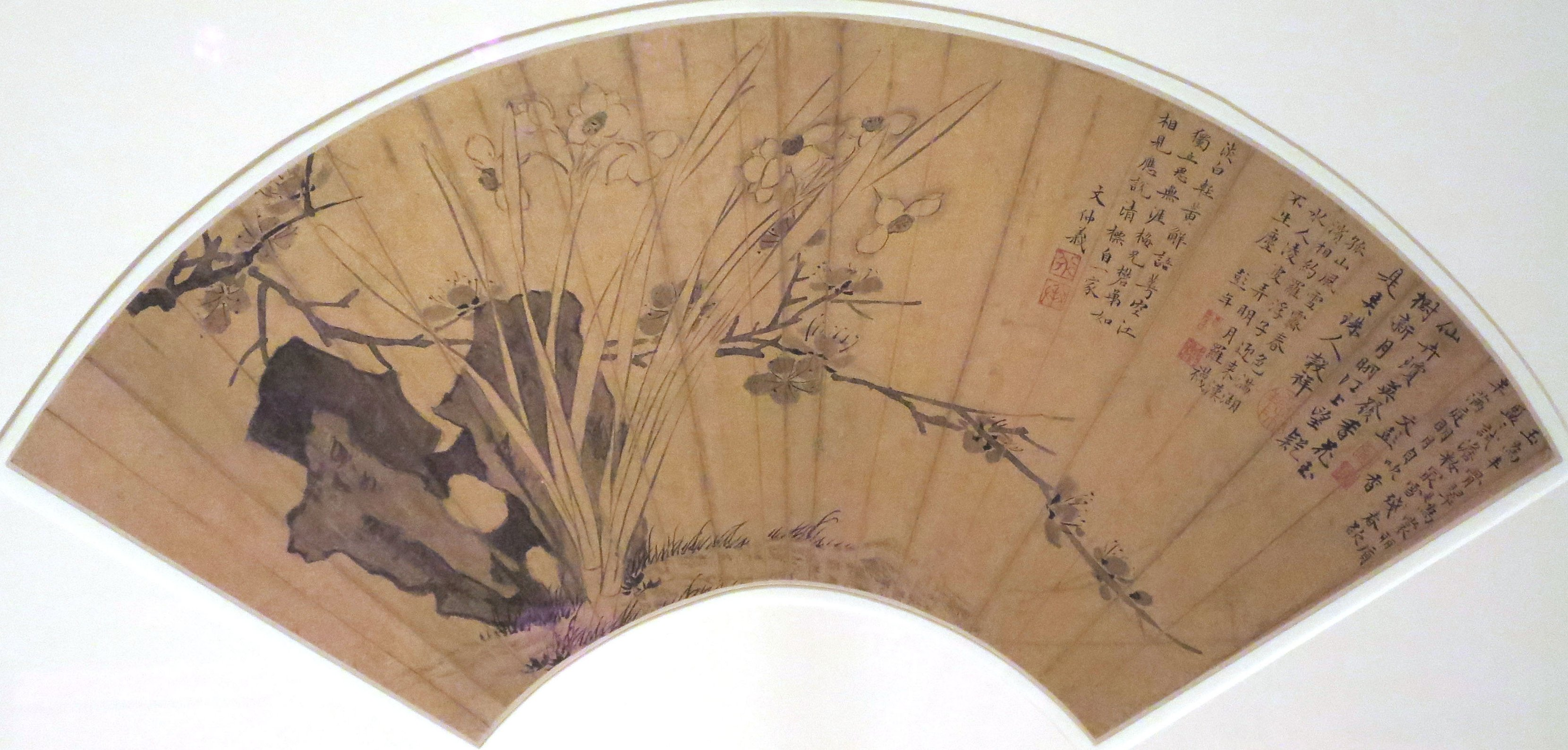 Narcissus, Plum Blossoms and Rock by Wang Guxiang, 16th century, ink on gold paper, Honolulu Museum of Art, accession 2303.1